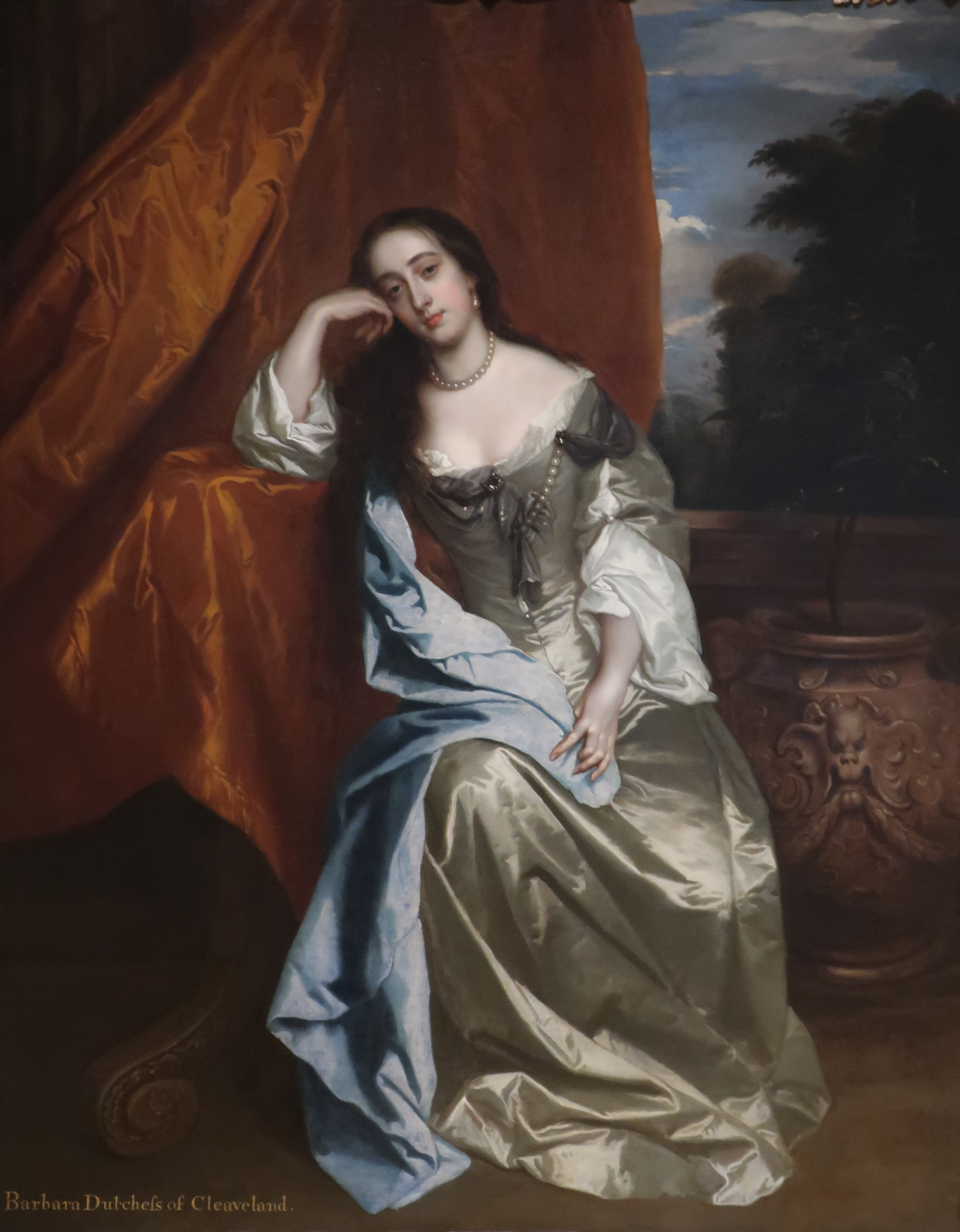 Portrait of Barbara Palmer, née Villiers, Lady Castlemaine and Duchess of Cleveland by Peter Lely, oil on canvas, Schorr Collection